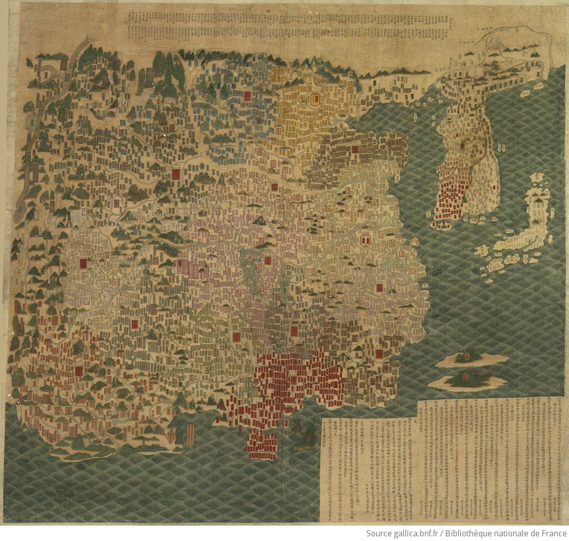 Map of China made during Ming dynasty. Author of map unknown. Printed by 白君可. Inscription by Wang Pan in 1594. The original map was lost. The only extant version is a colored drawing on silk by a Korean map maker during 1603-1626. It is now in the collection of National Library of France. From Pei-kai Cheng. New Perspectives on the Research of Chinese Culture. Springer Science & Business Media; 14 December 2012.